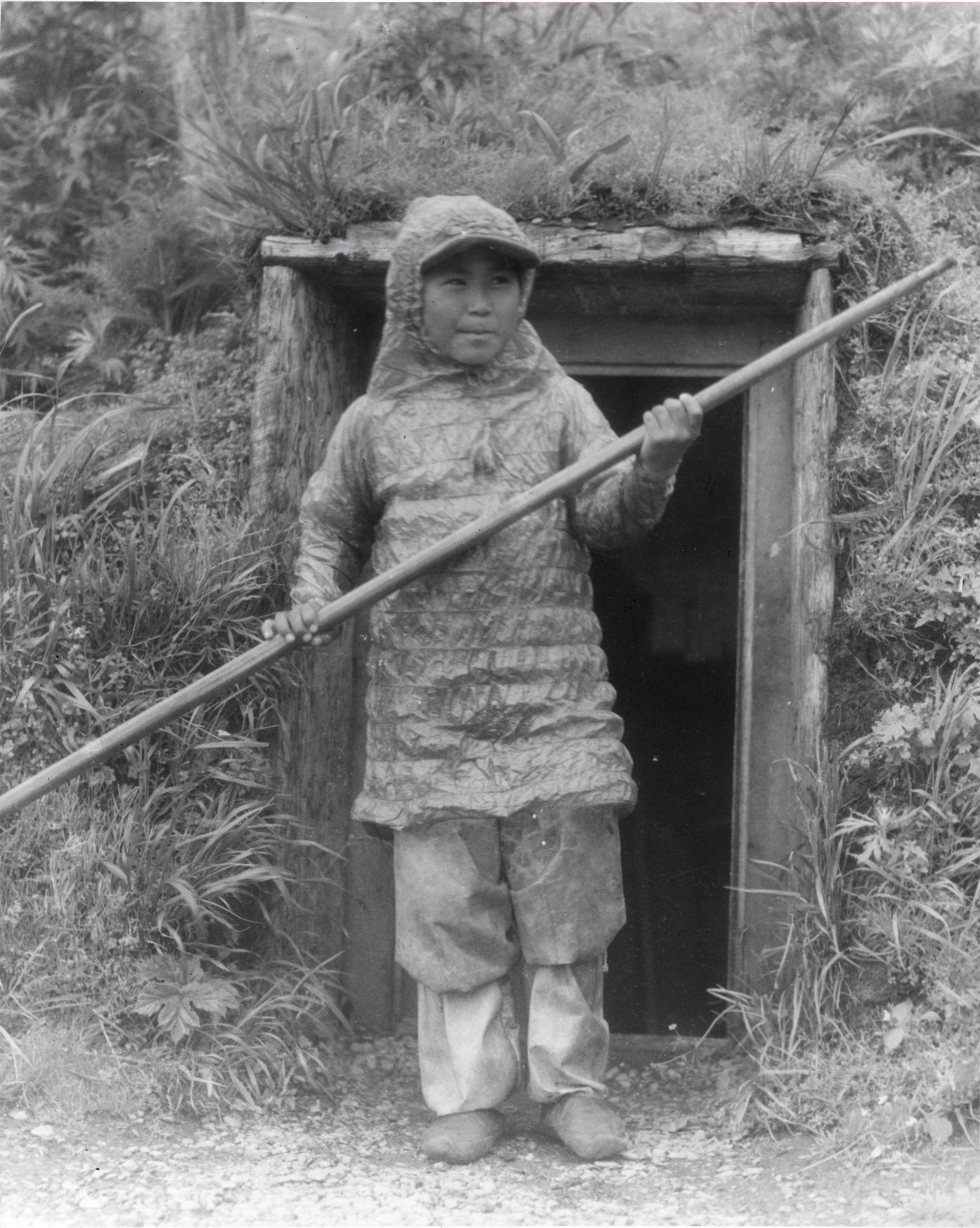 Attu boy wearing rainproof Kalemeinka, Attu Island, circa 1950